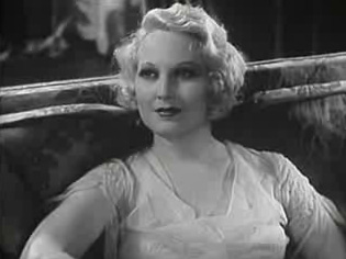 Screenshot of Thelma Todd from the film Corsair.